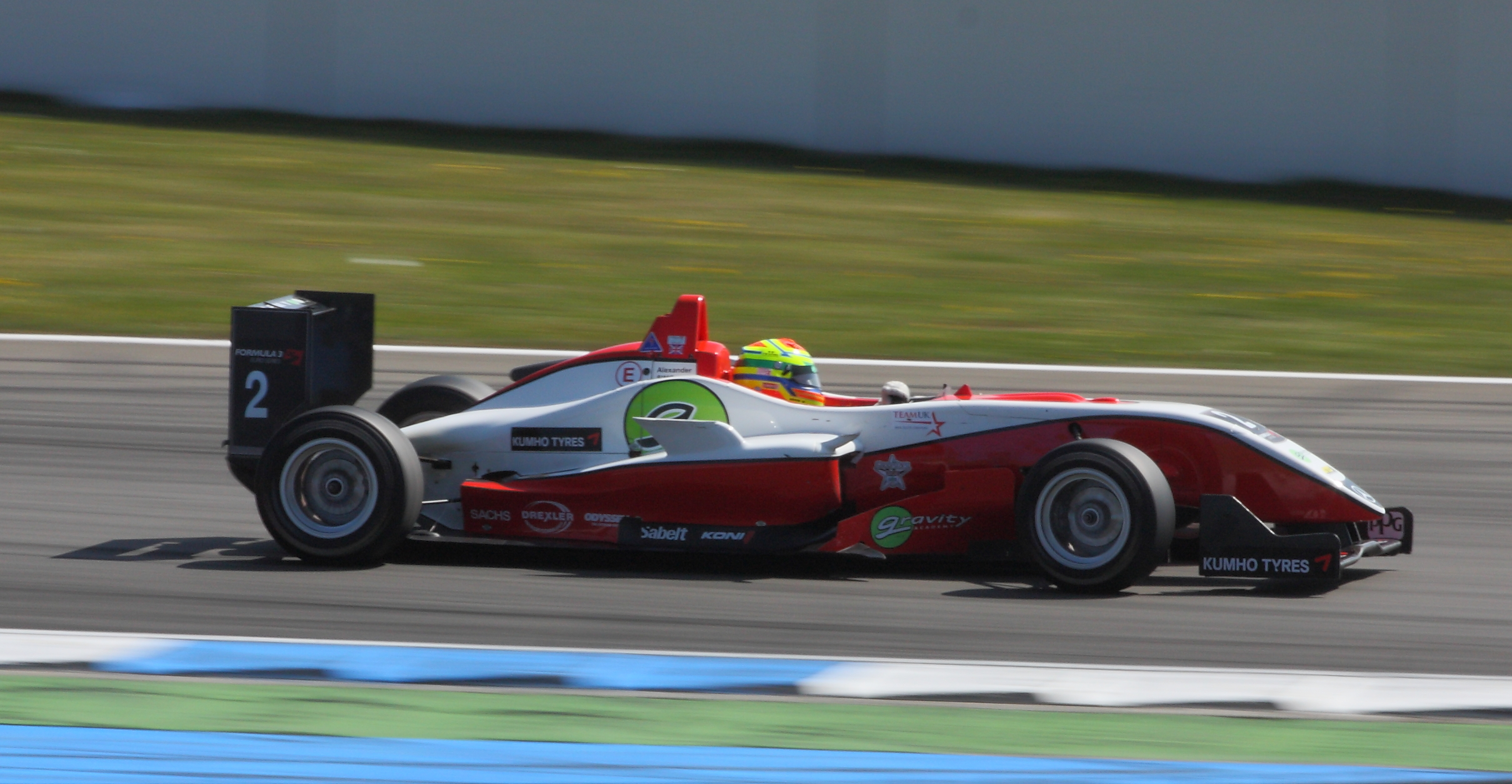 Formula 3 Euroseries, Hockenheimring; Alexander Sims